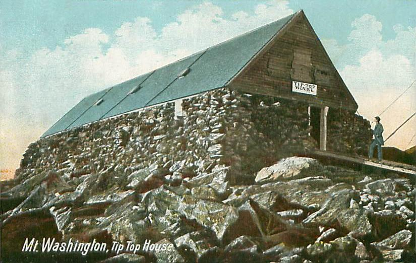 The Tip-Top House, Mount Washington, New Hampshire